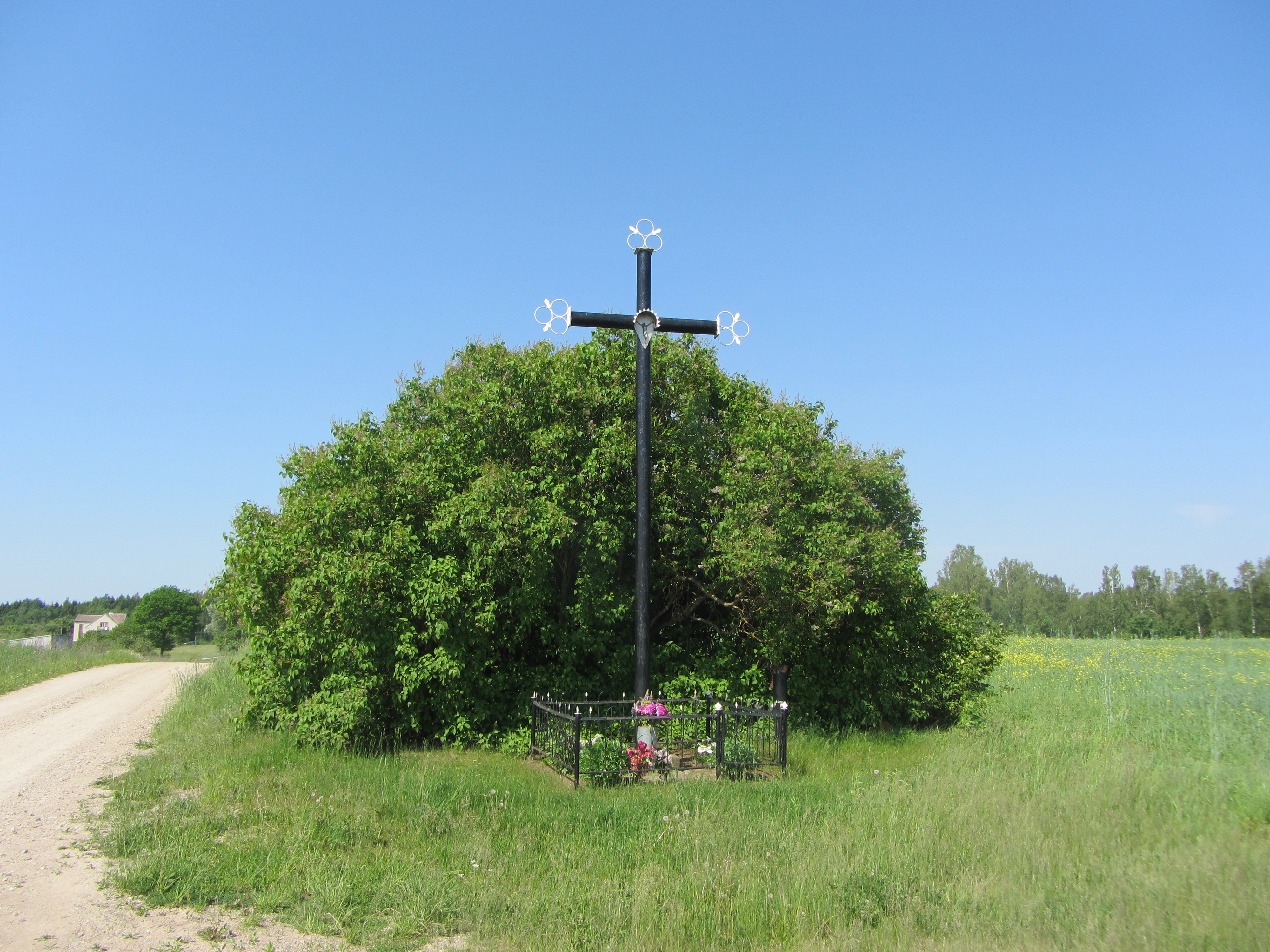 Sudervės sen., Lithuania